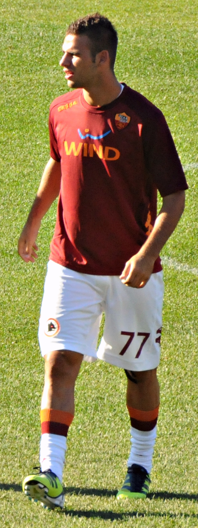 Panagiotis Tachtsidis before the game between Liverpool and AS Roma at Fenway Park, 25 July 2012.